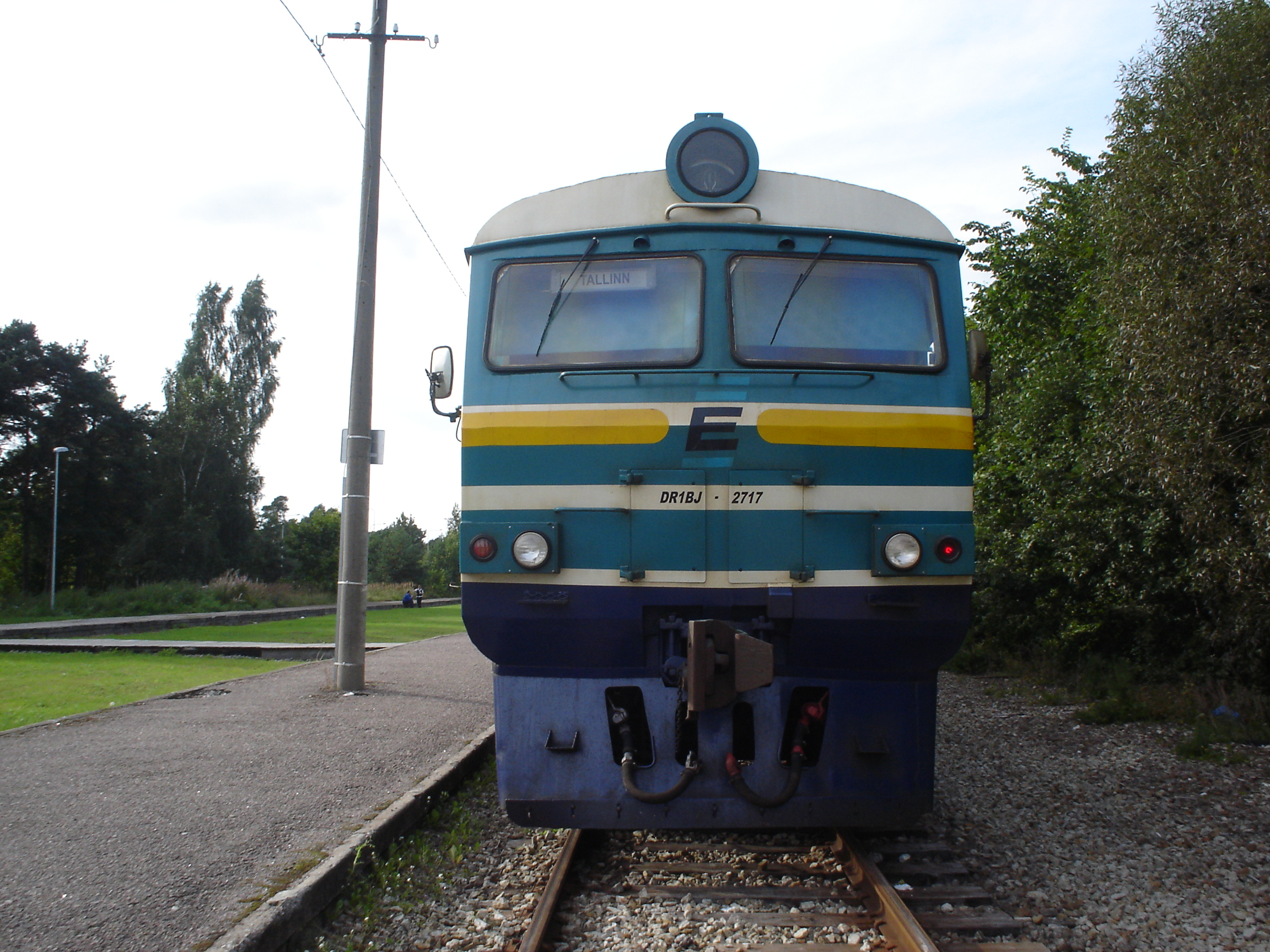 RVR diesel train short before departing to Tallinn. Pärnu (Raeküla) railway station.